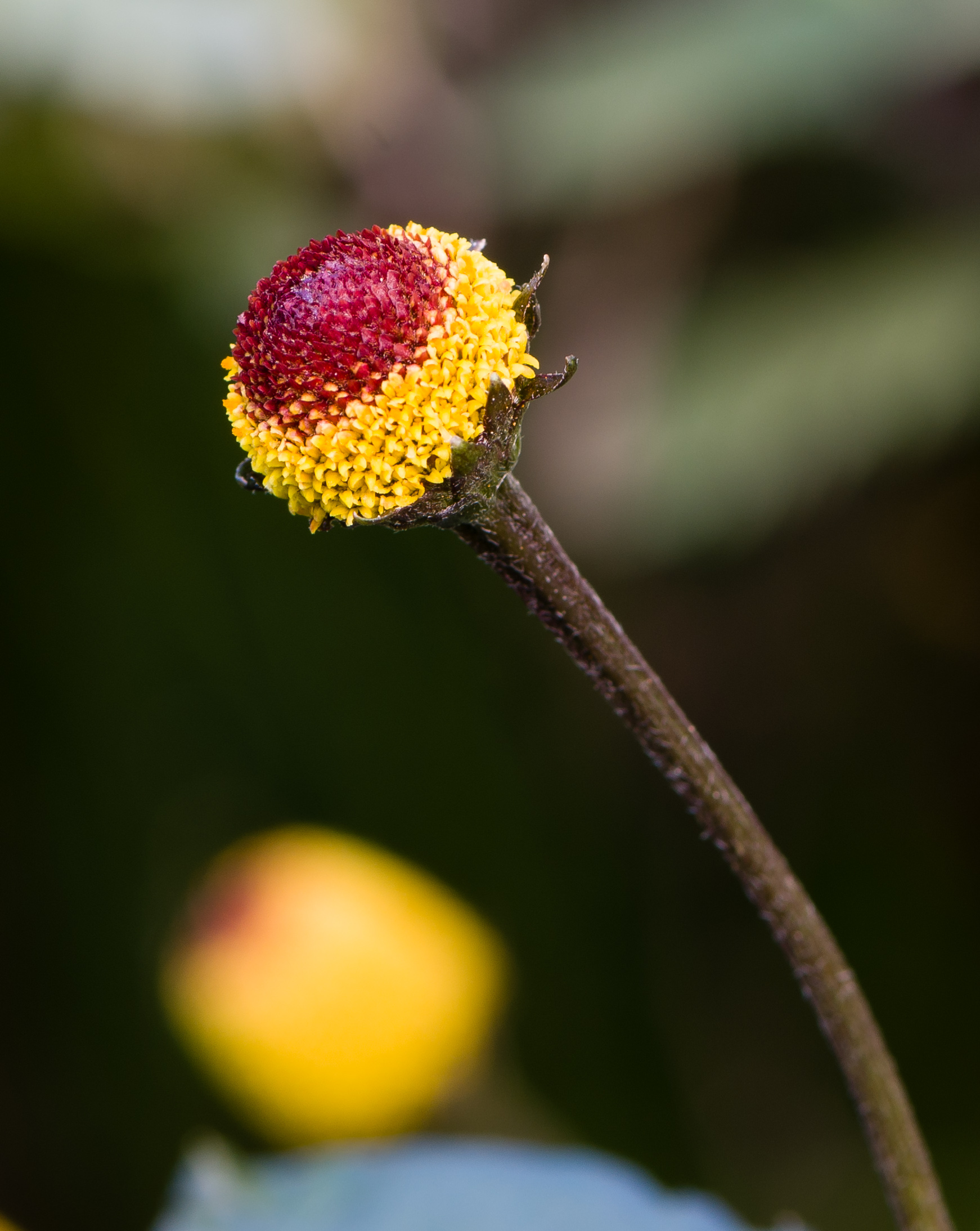 Jambú (Acmella oleracea)